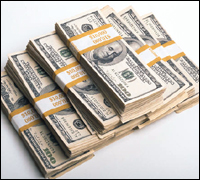 $100 bills in $10000 straps, stacked in a pyramid